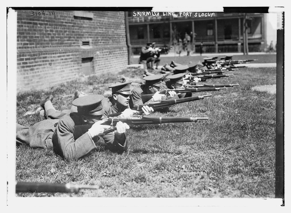 Prone men with riles on grass in front of building